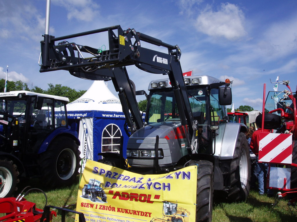 McCormick CX105 Diamond Edition with Metal-fach front loader